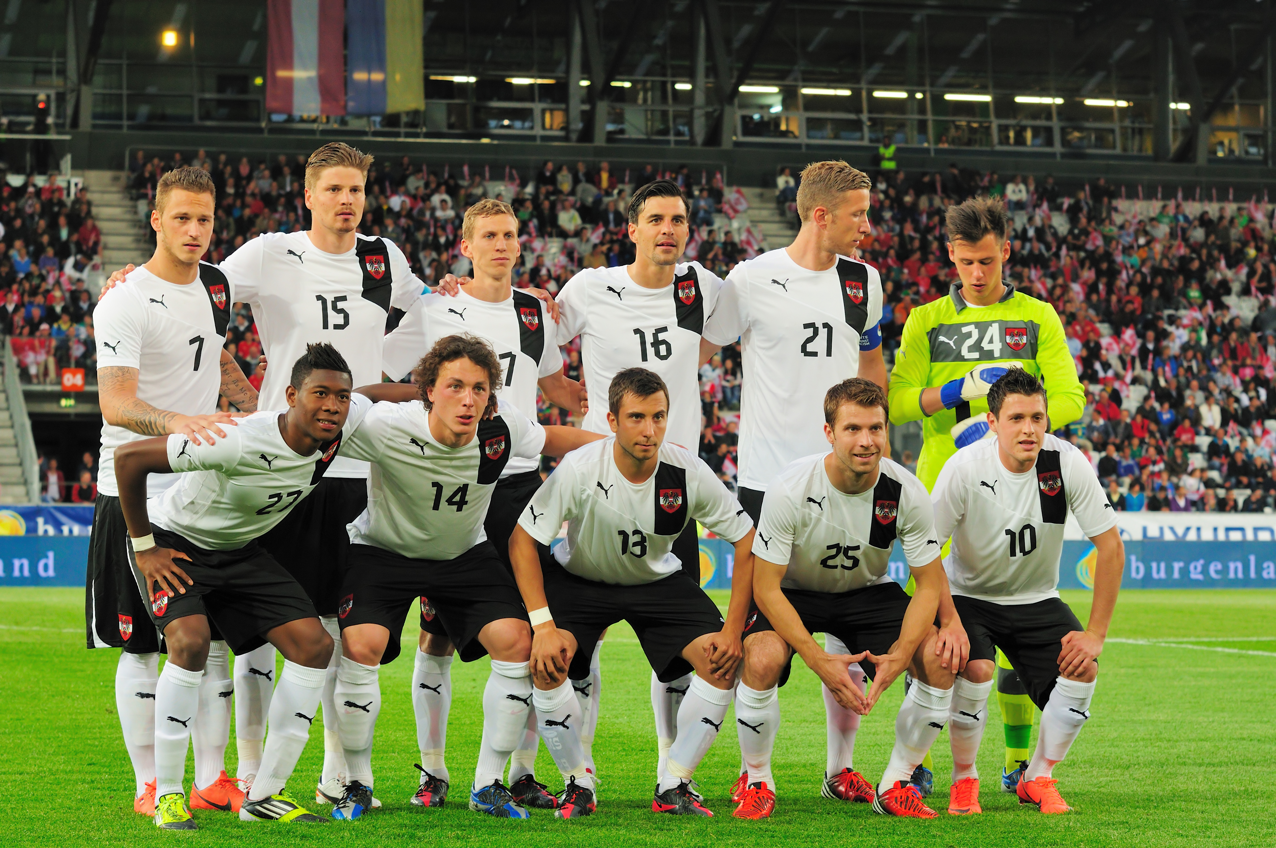 Exhibition game Austria vs. Ukraine at 1st. June 2012